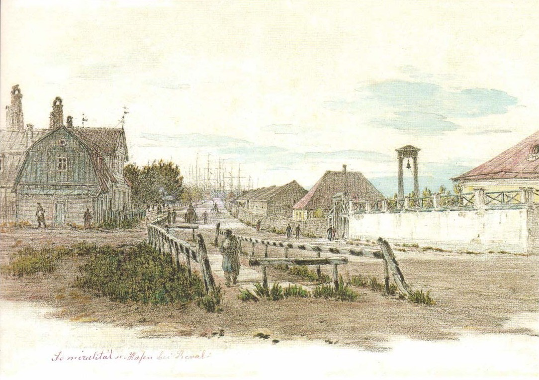 Tallinn Admiraliteet ja sadam. . Photo about 1830